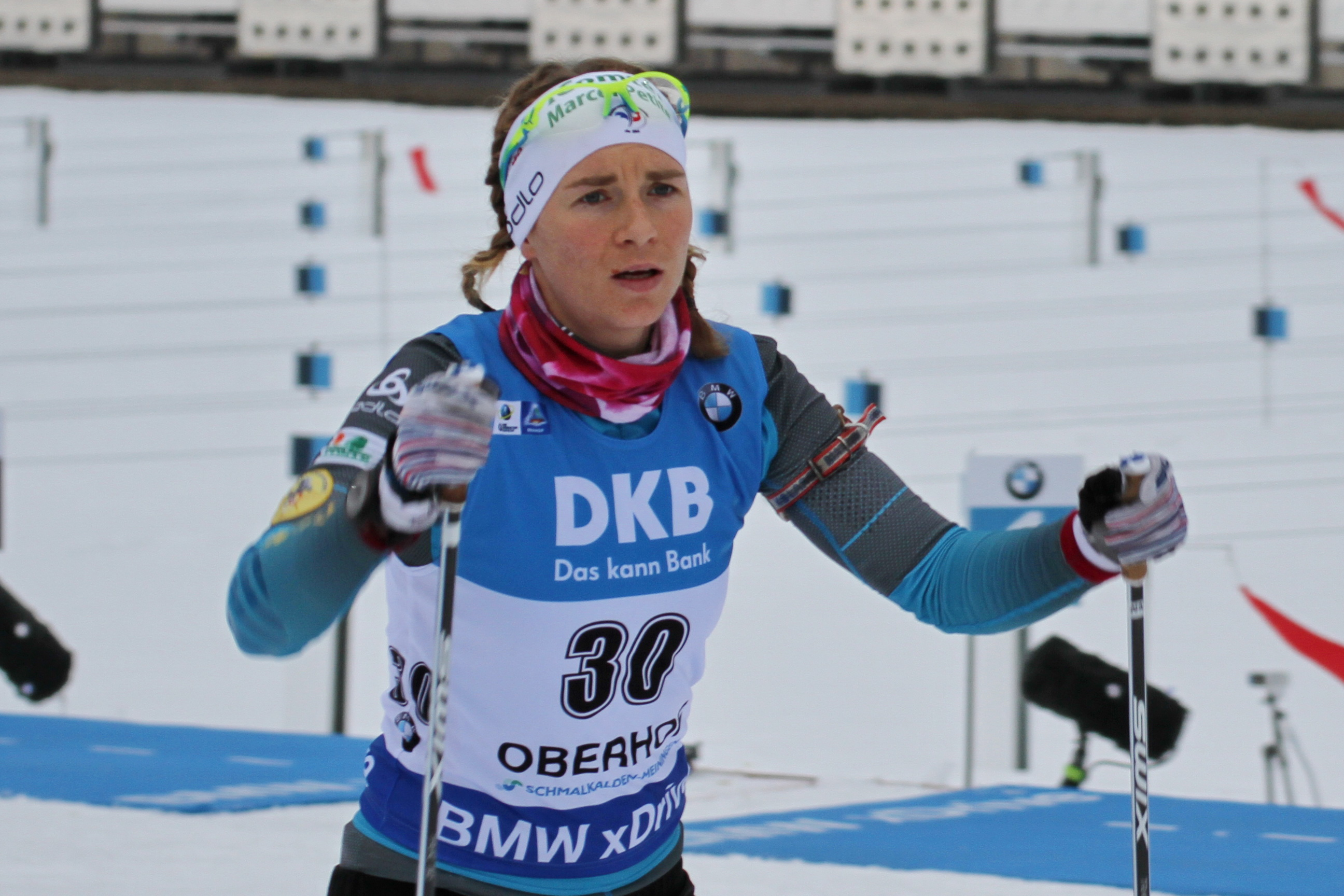 2018 Oberhof Biathlon World Cup - Sprint Women